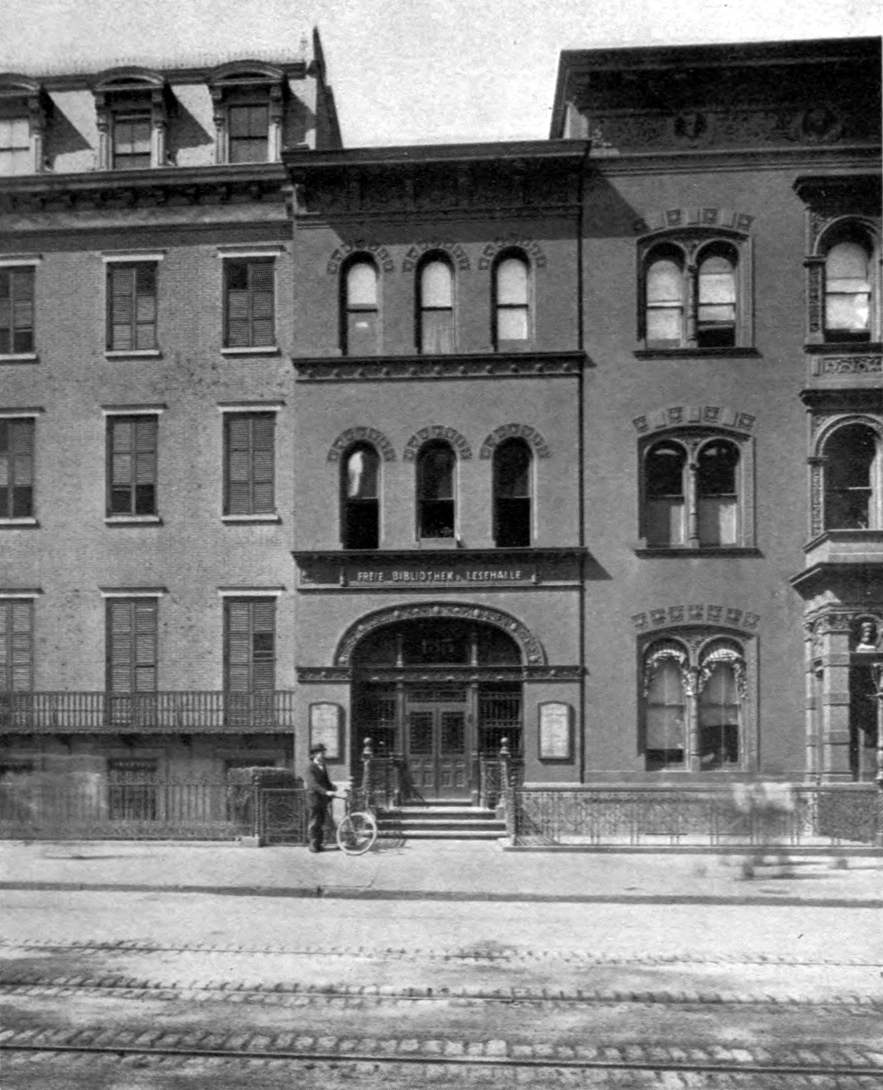 Photograph of the Ottendorfer Branch of the New York Free Circulating Library.